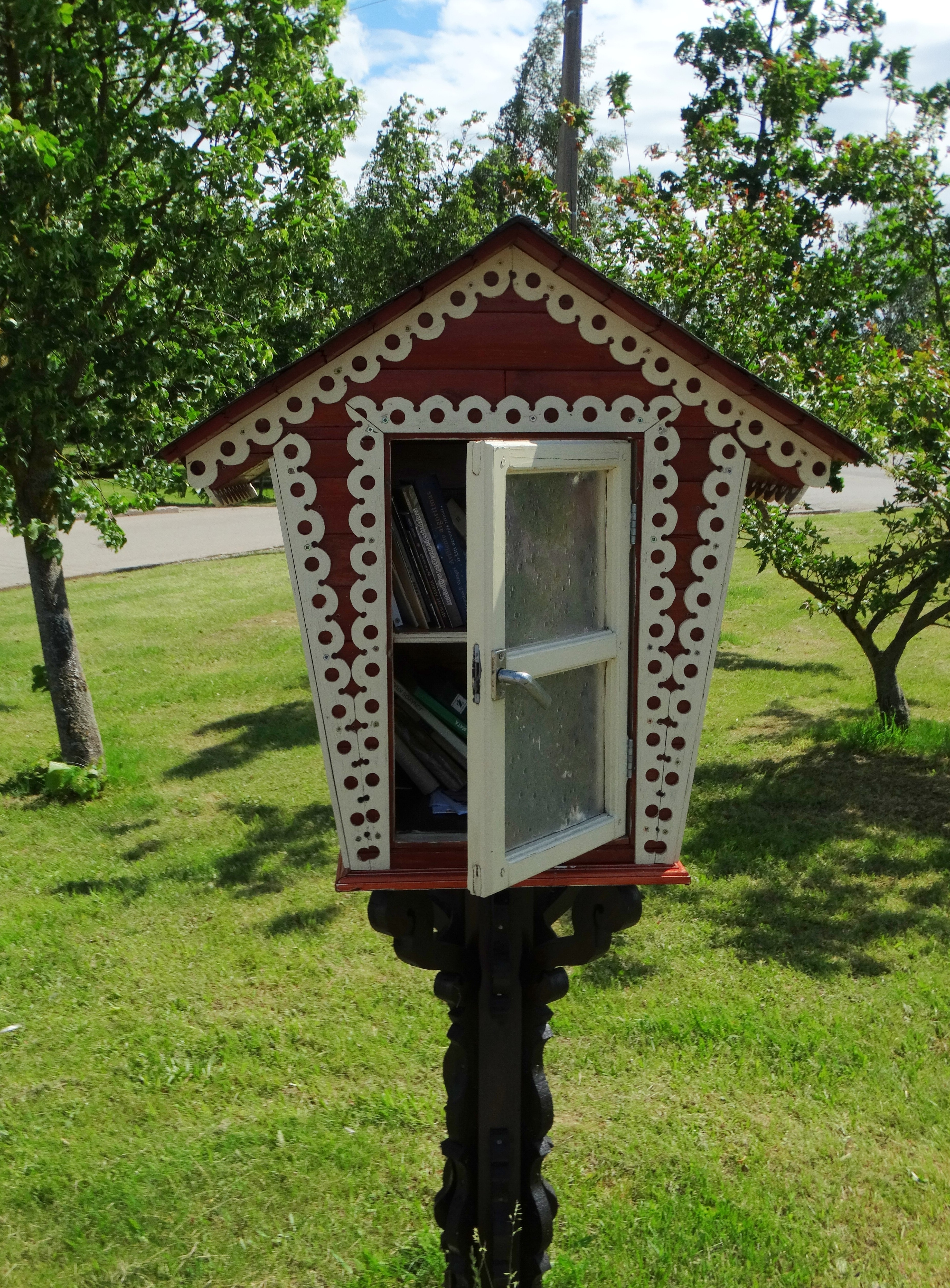 Bukonys, little house of books, Jonava district, Lithuania